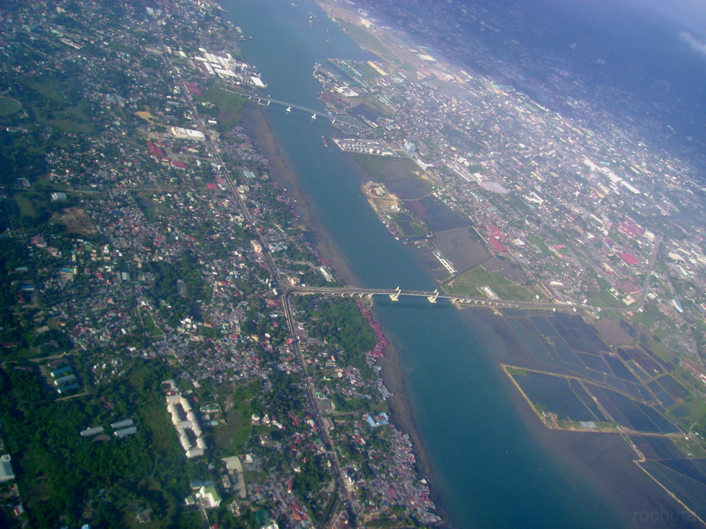 Aerial view of Metro Cebu